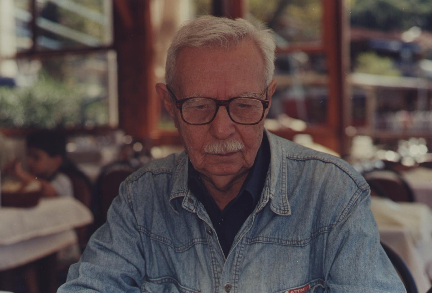 Samin Baghcheban (Baghtcheban) Persian Composer